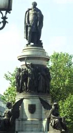 Statue of Daniel O'Connell, Dublin, Ireland